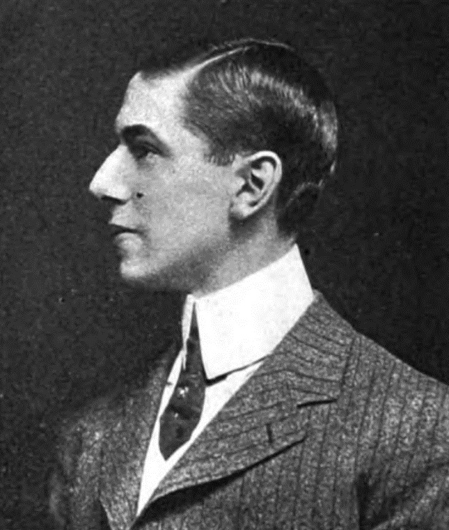 Justus Miles Forman